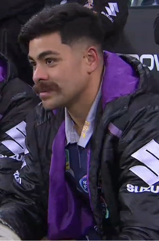 Young Tonumaipea on the sidelines of the Melbourne Storm vs Sydney Roosters Game, 23 July 2016, with his glorious mustache.